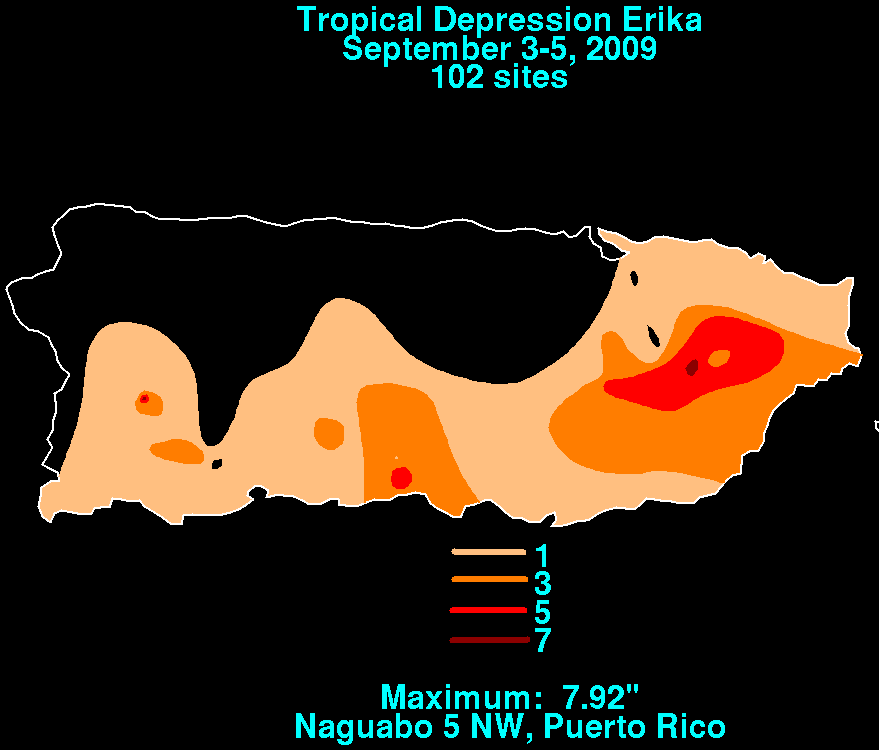 Rainfall produced by Tropical Storm Erika during September 2009.